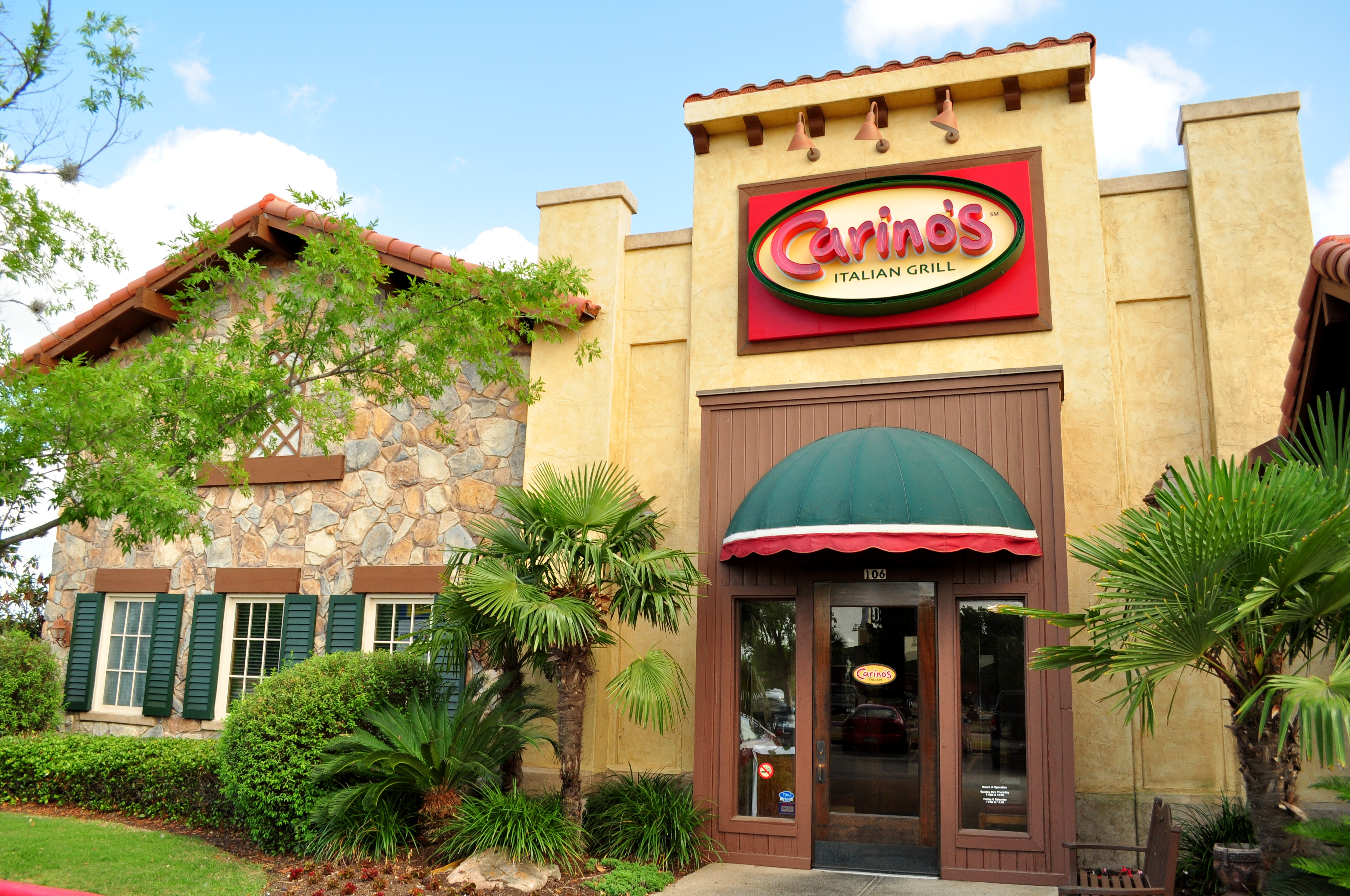 Carino's Italian Restaurant taken in Lake Jackson, Texas on May 7, 2011